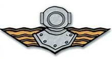 Finnish Defence Forces breast insignia for divers, 1st class, also called "diver wings"